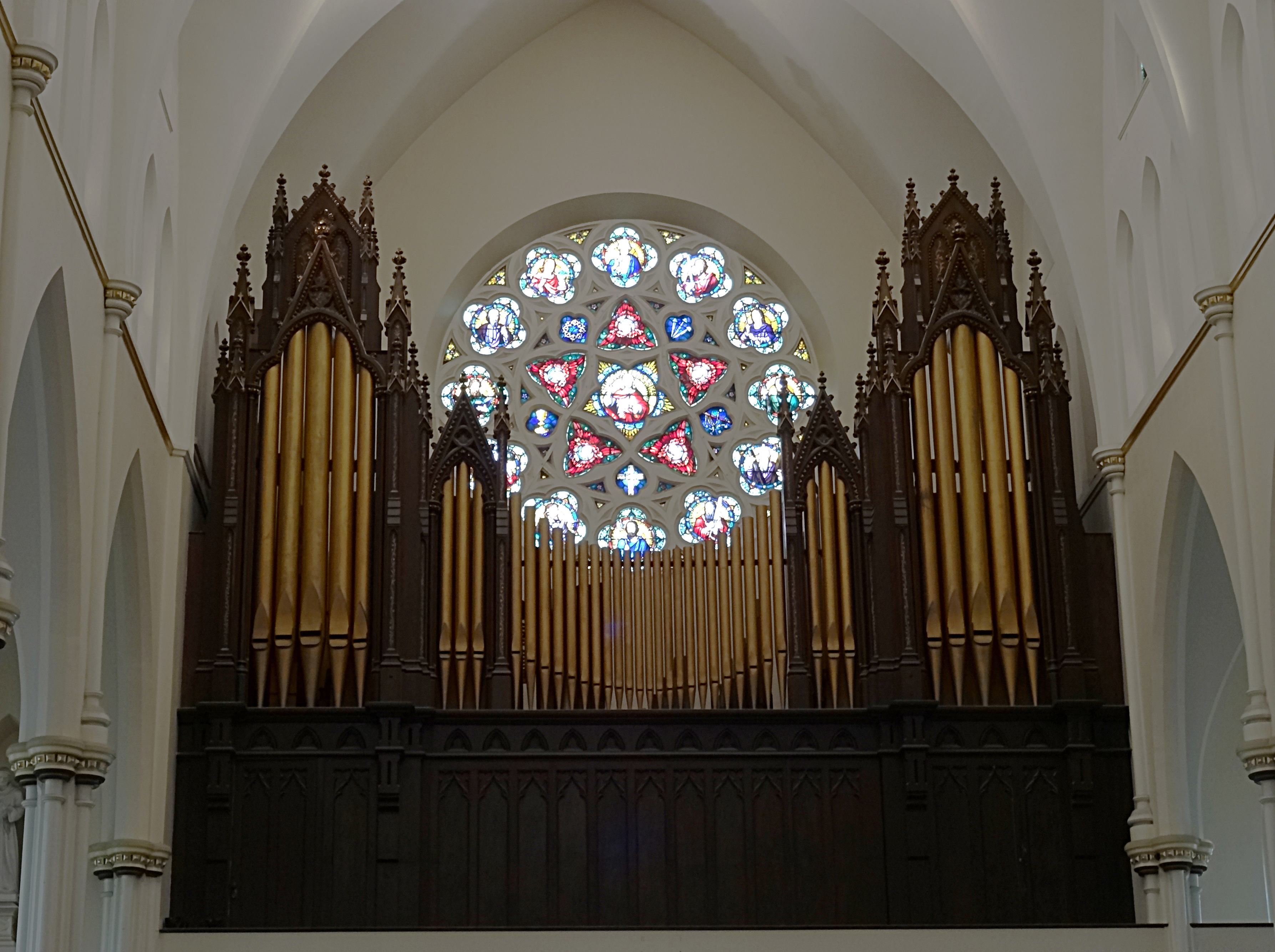 Organ by Henry Erben (1869), revised by Faucher Organ Company, Inc. Opus 24 (2000)